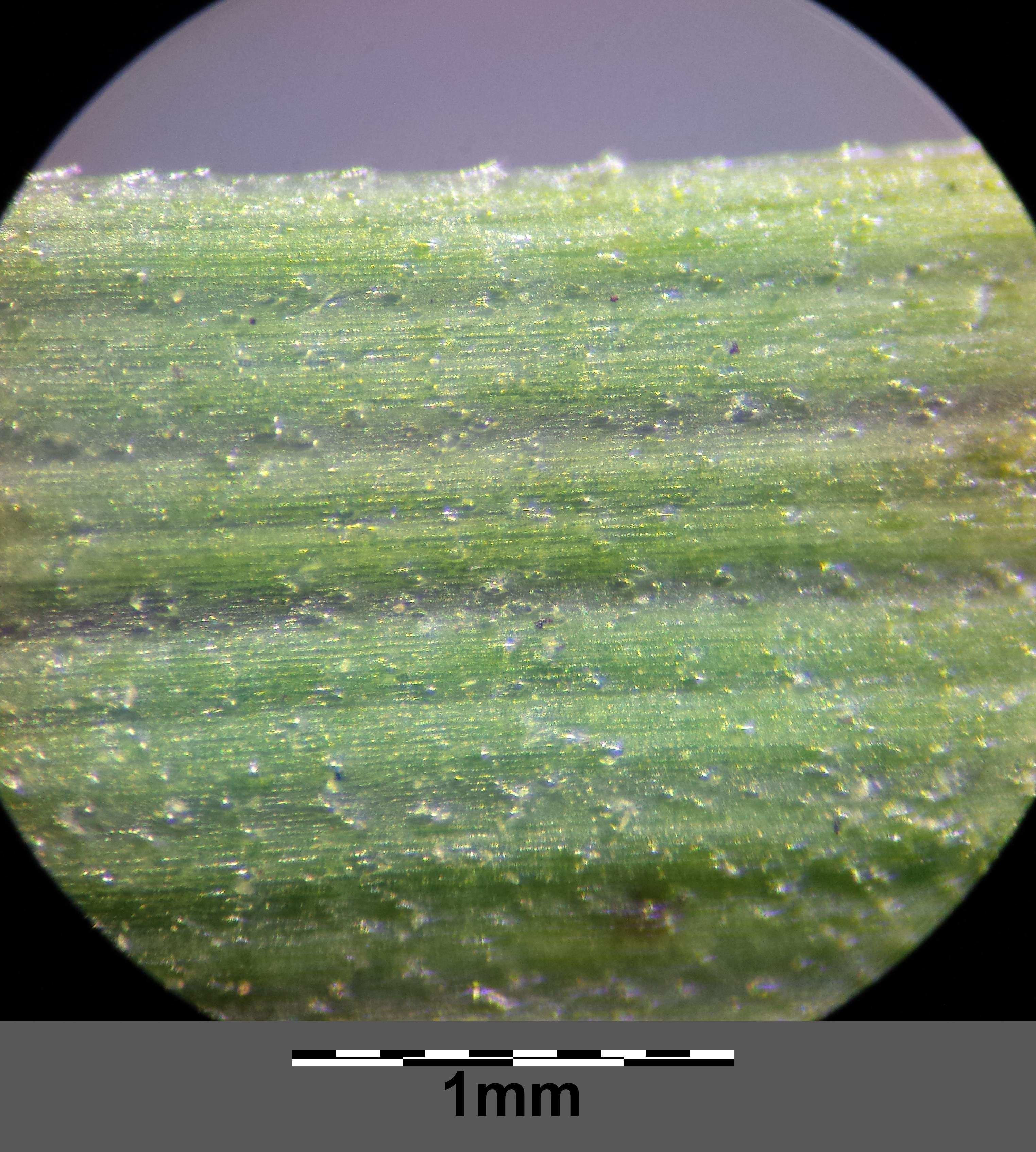 Scabrid bottom side of leaf Taxonym: Stipa pulcherrima (subsp. pulcherrima) ss Fischer et al. EfÖLS 2008 ISBN 978-3-85474-187-9 Location: semi-dry grasslands and wine yards to the north of Oberthern, municipality Heldenberg, district Hollabrunn, Lower Austria - ca. 300 m ü. A. Habitat: slope